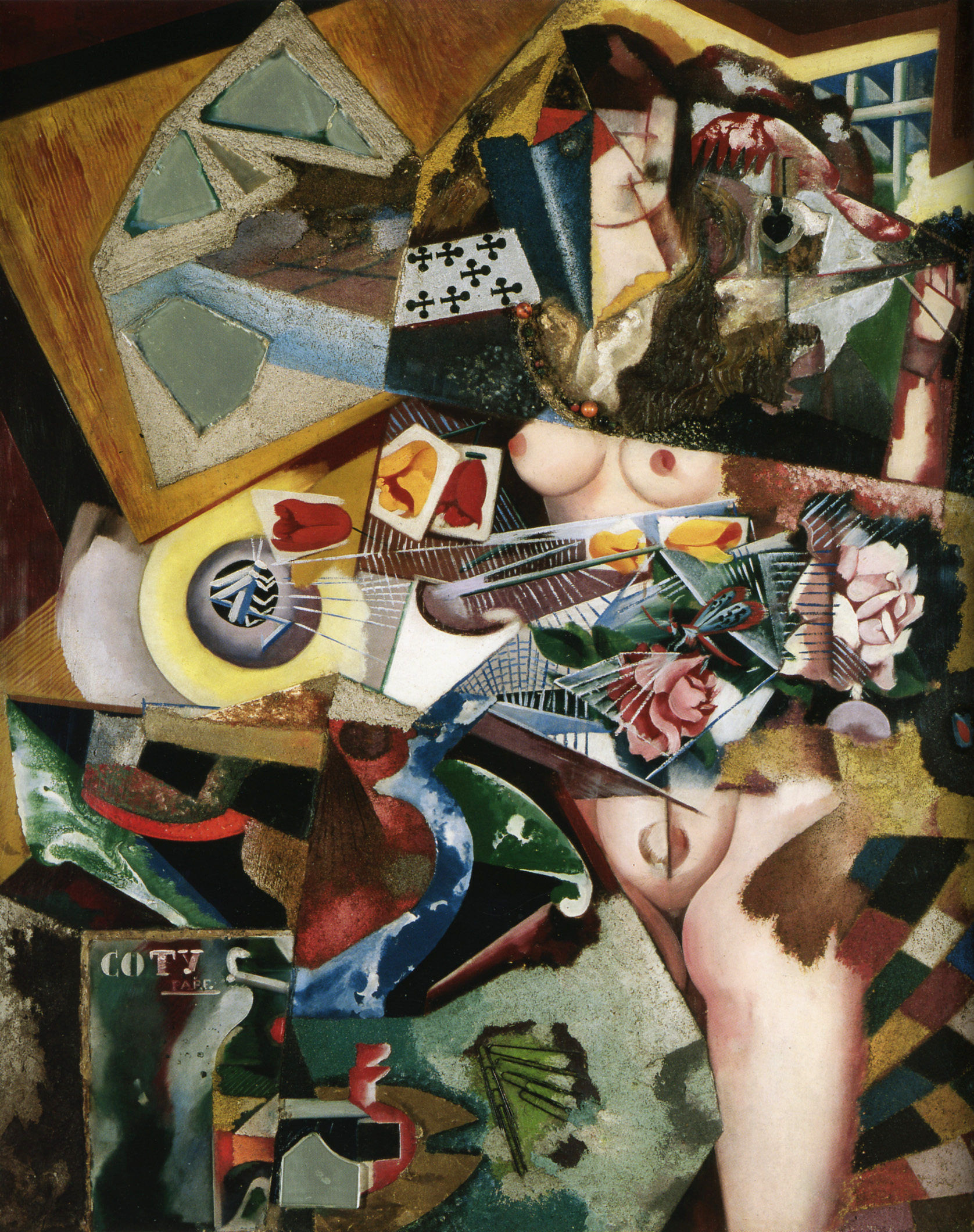 Untitled (Coty)